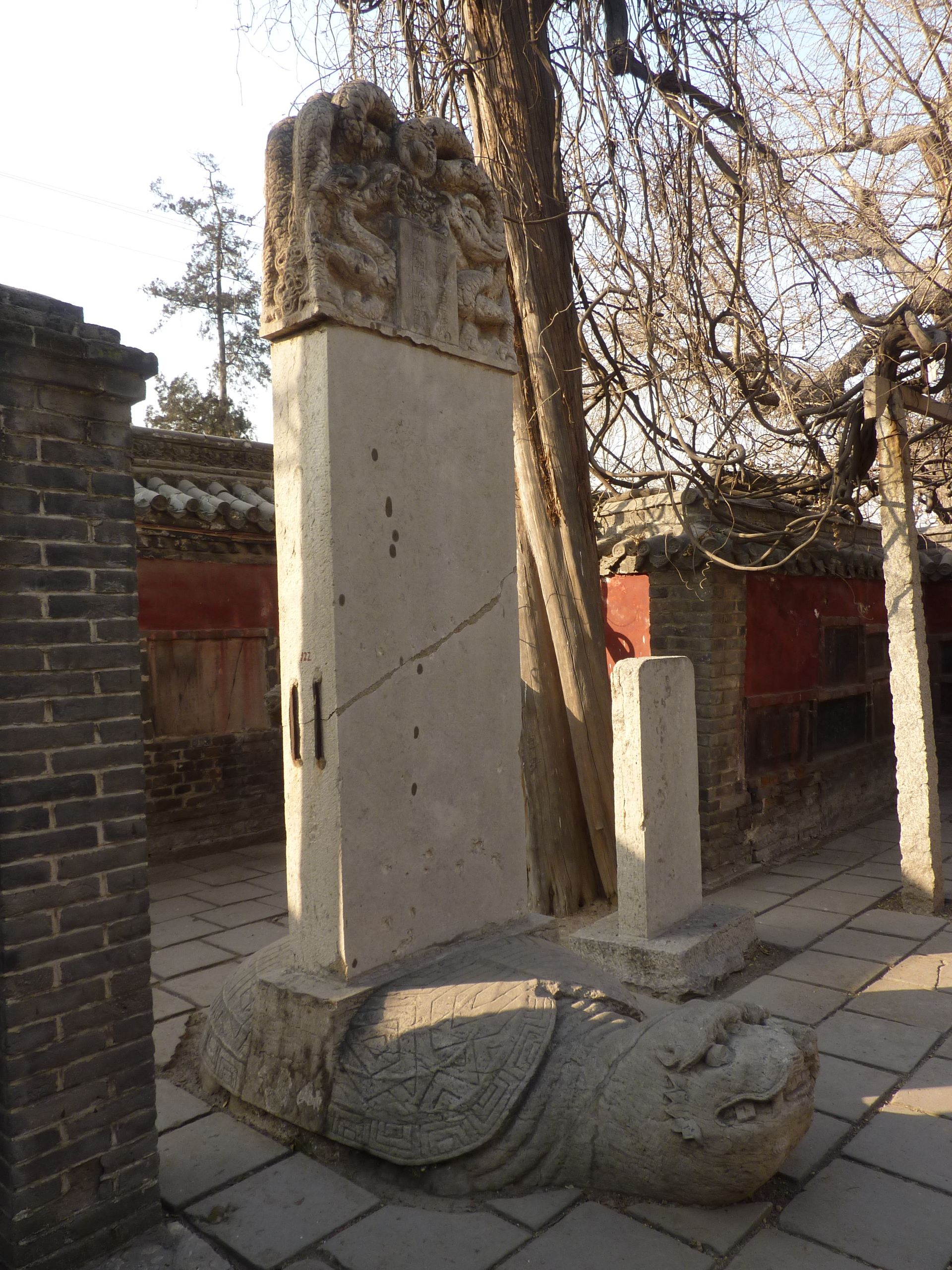 A bixi-borne stele from near Qisheng Hall in the temple of Mencius. While I can't read the inscription, this may be 1 Zhishun (1330 AD) stele from the catalog